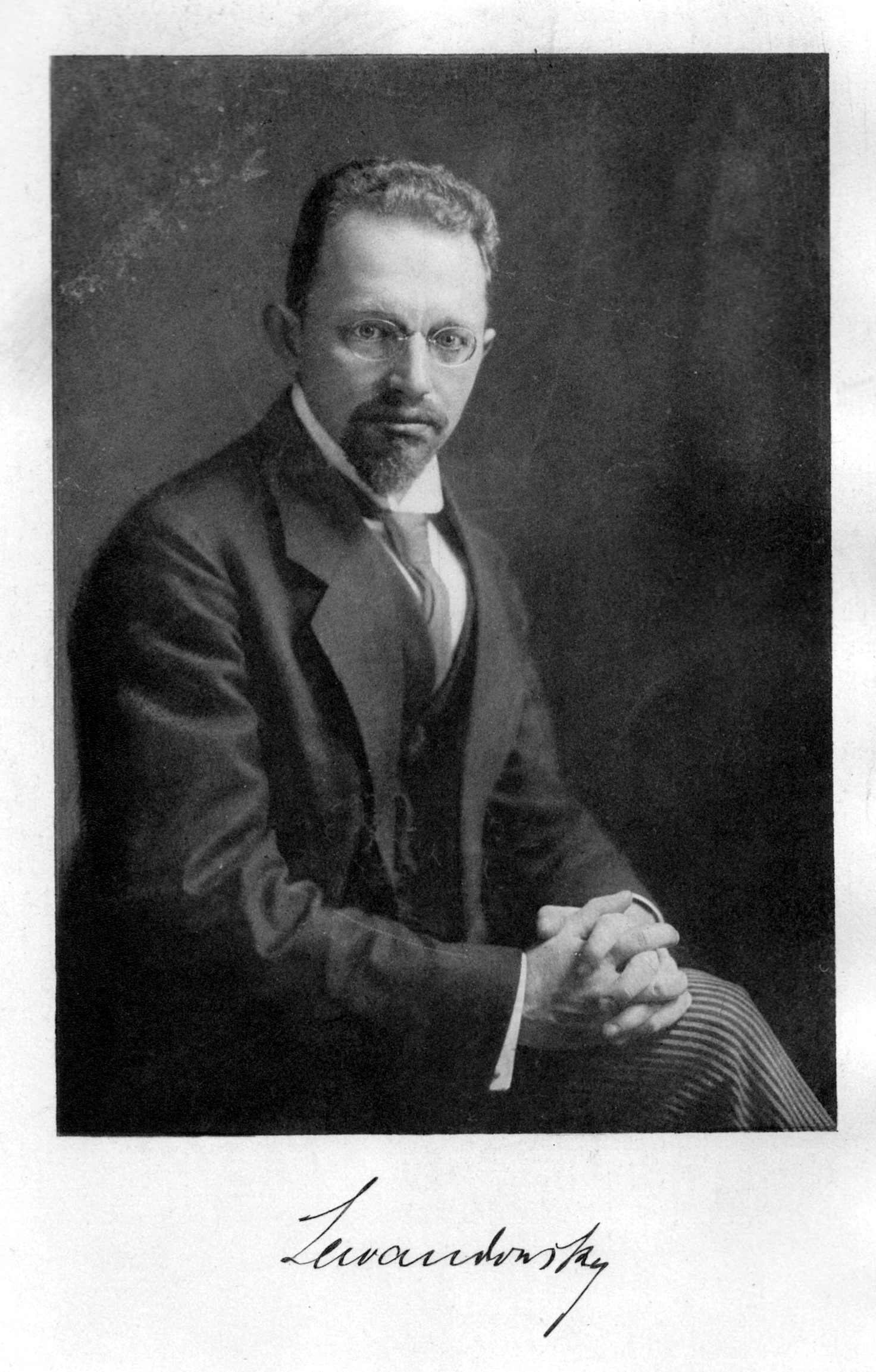 Max Lewandowsky